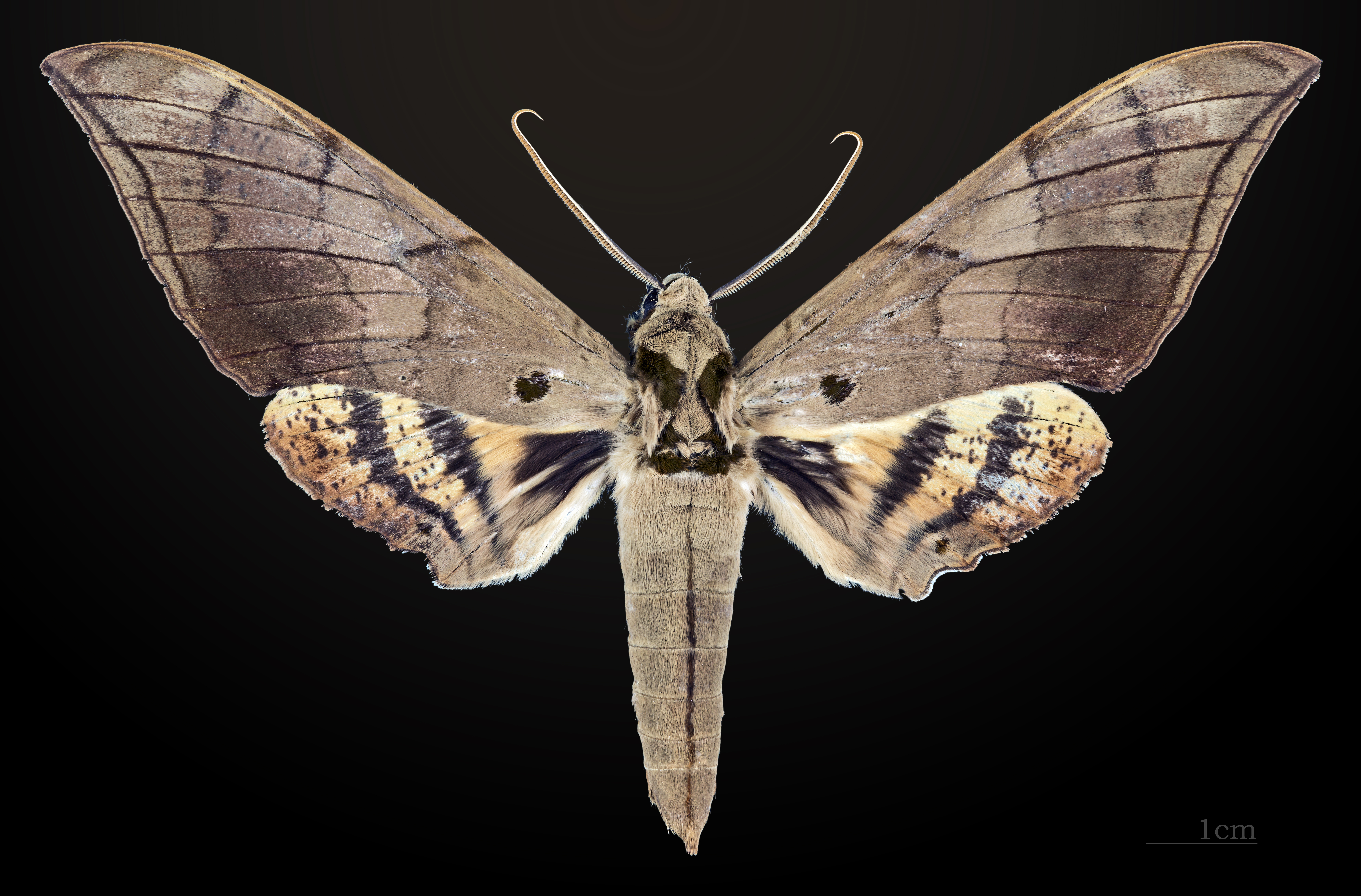 Ambulyx staudingeri - Dorsal side Collection of the Mathematician Laurent Schwartz